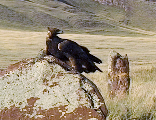 Eagle on megalith near village Kazanovka in Republic Khakasiya, Russian Federation. Photo by Anatoly Terentiev, 13 September 2000.